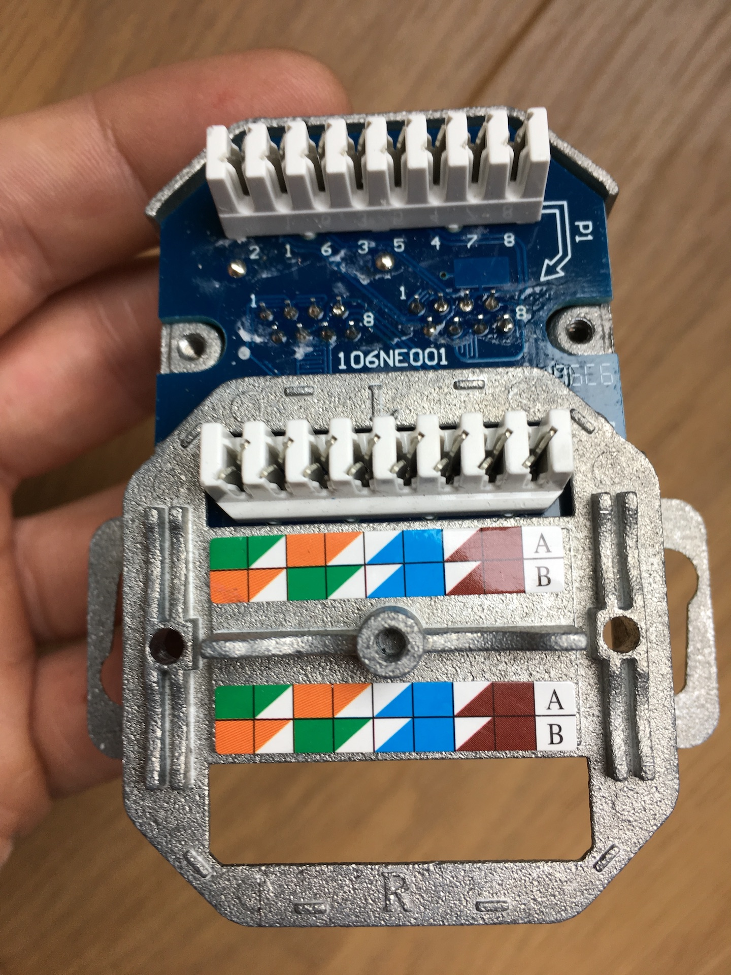 A commercially available RJ45 wall socket with T568A and T568B termination schemes indicated by the colours. Note that the pin out is adjusted such that pairs of the same colour are adjacent.